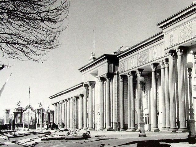 Old Parliament Building, Tehran